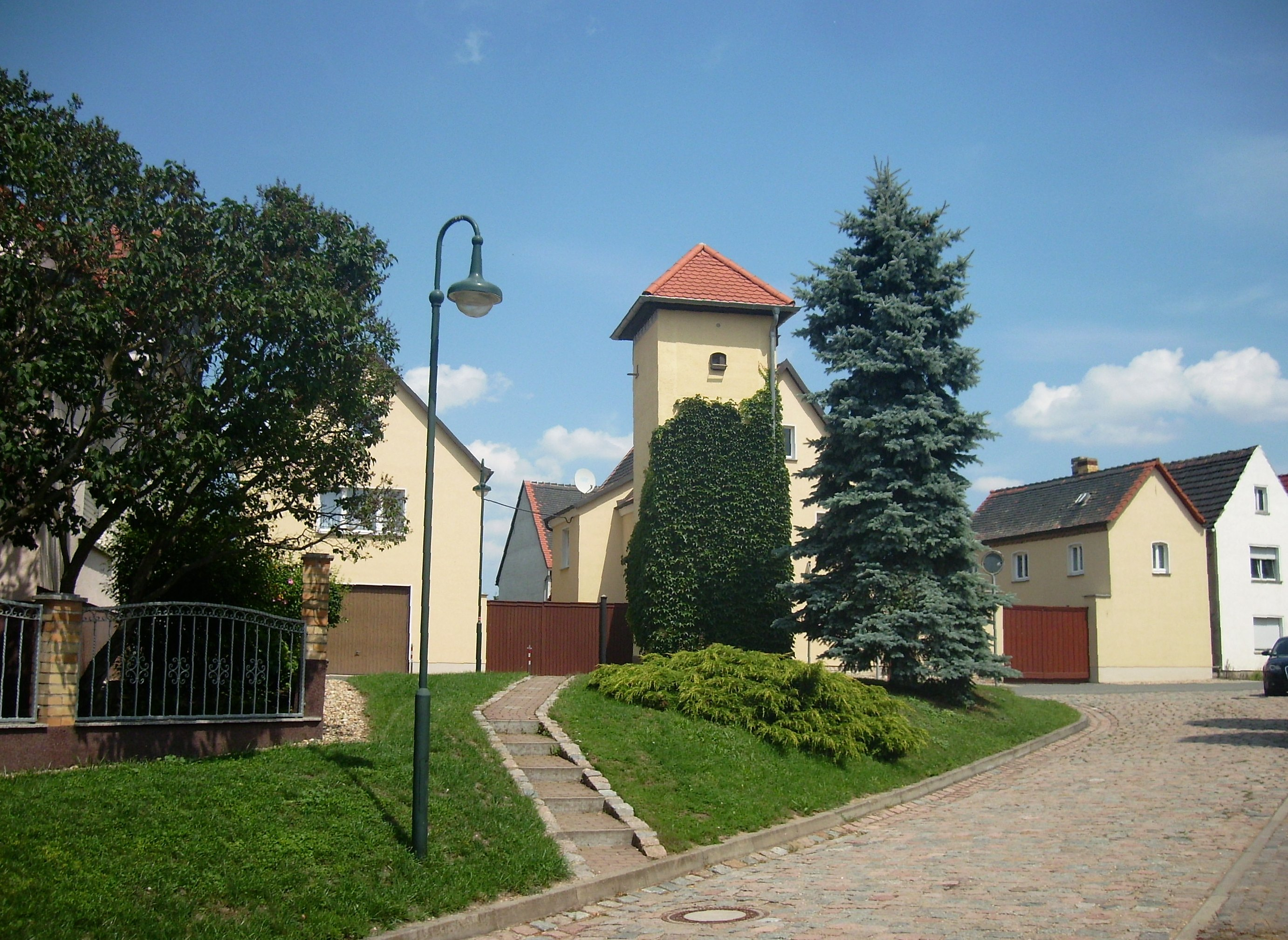 At the former distribution substation in Kleingöhren (Lützen, district of Burggenlandkreis, Saxony-Anhalt)